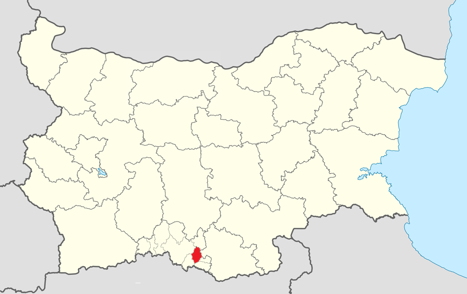 Location map of Madan Municipality within Bulgaria and Smolyan province